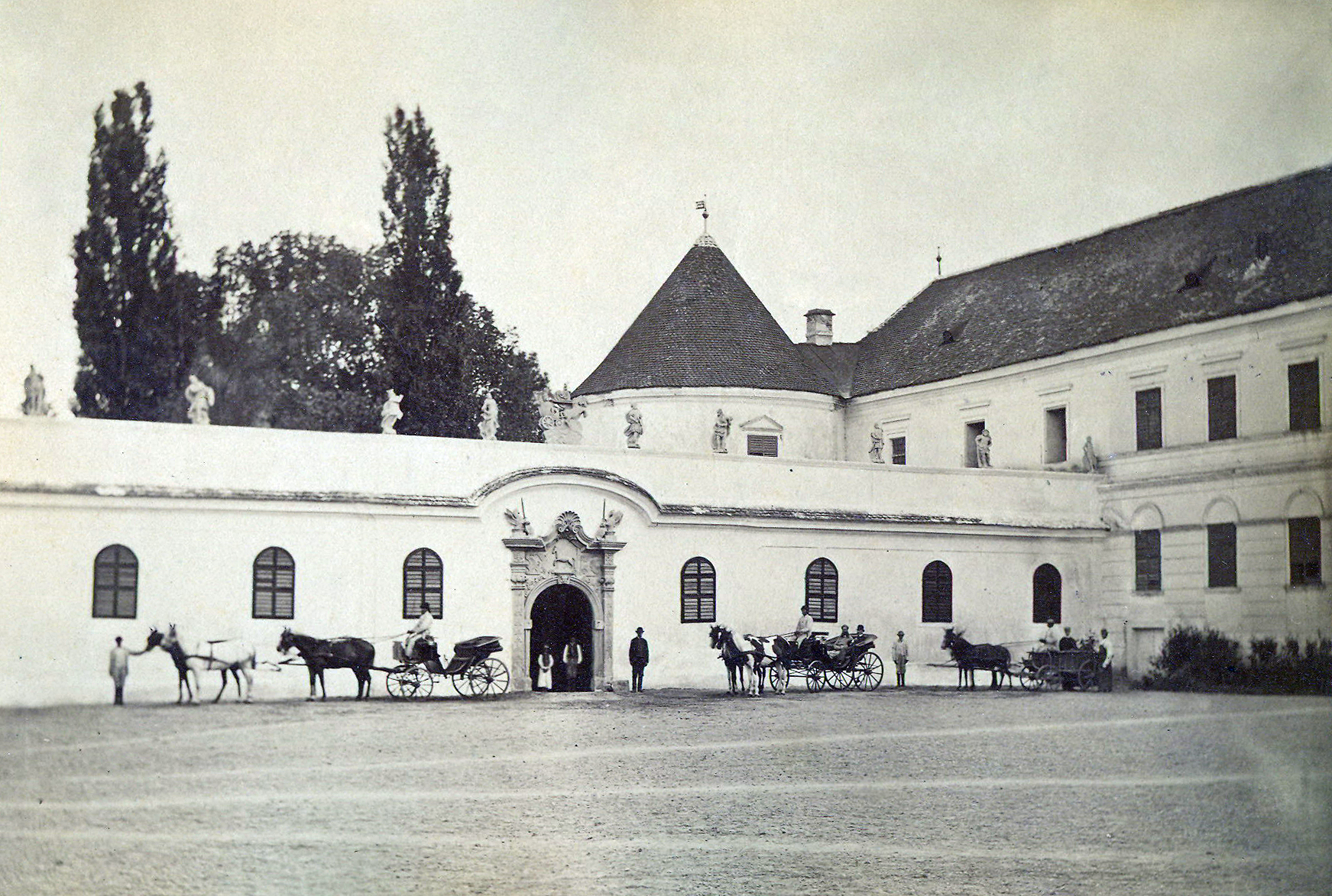 Banffy Castle in Bonţida, 1890